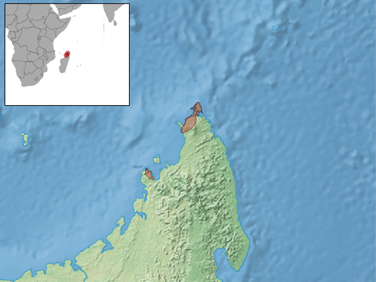 geographic distribution of Amphiglossus alluaudi